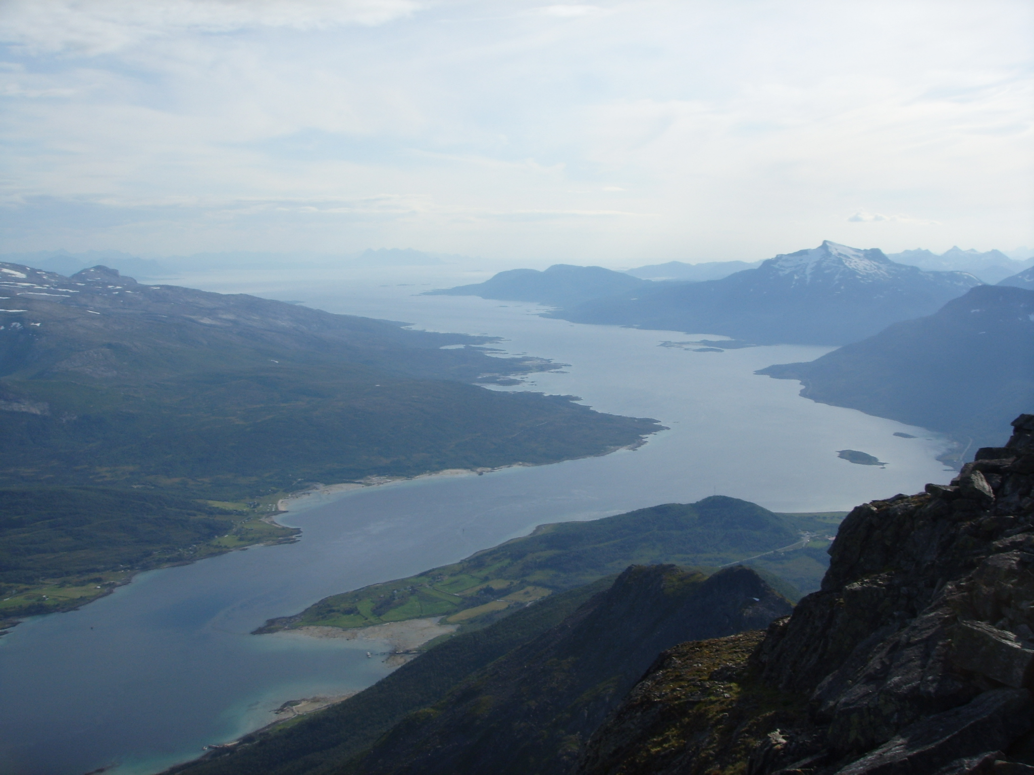 A sound between Hinnøya Island and the mainland on the border between Nordland and Troms counties. Photographed from the peak of Mt. Sætertinden (1094 m) in direction of Lødingen.